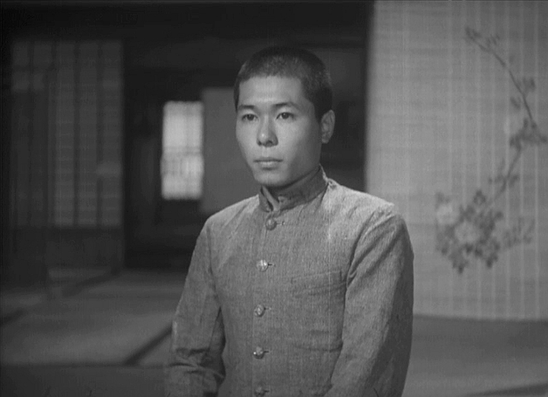 Kaoru Ito from "Hawai Mare oki kaisen (The War at Sea from Hawaii to Malay)".